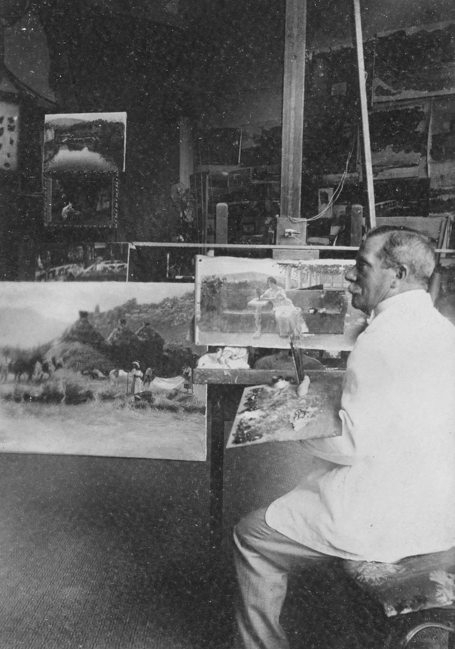 Pedro Weingärtner